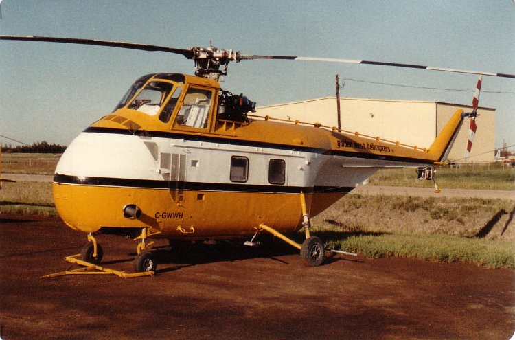 I took this photo of a Sikorsky S-55B at St Albert Aerodrome, Alberta in 1984